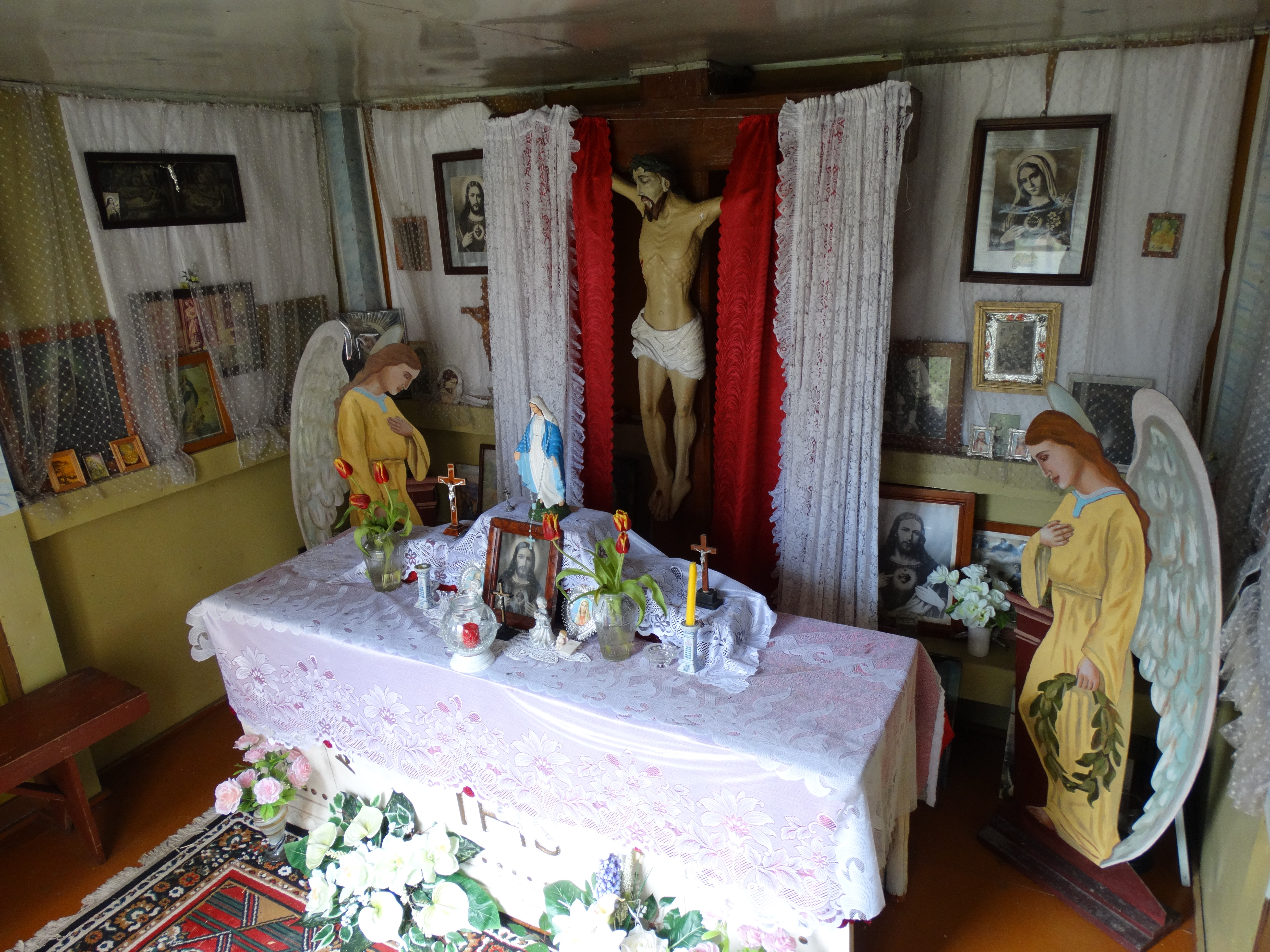 Chapel, Skaruliai, Jonava district, Lithuania